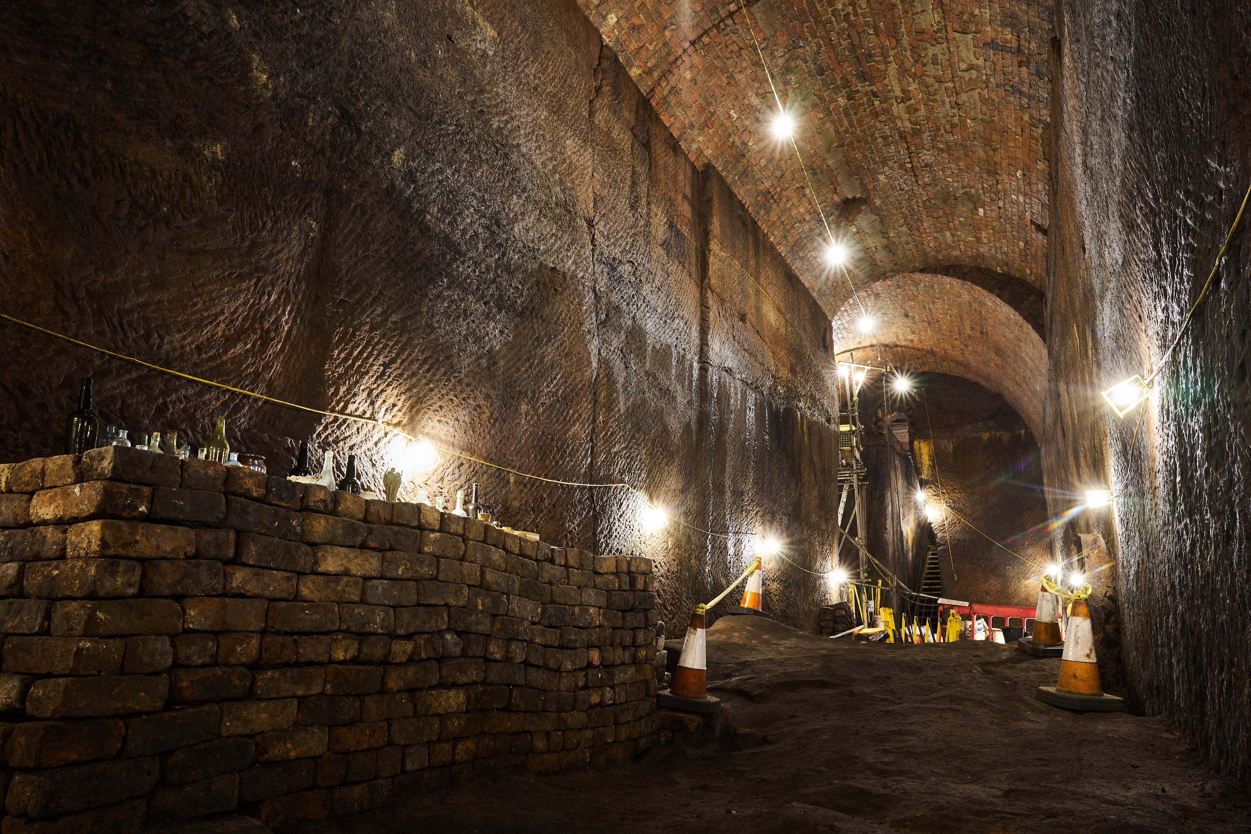 Apr 2019. The 'Banqueting Hall' beneath the site of Joseph Williamson's house, Mason Street, Liverpool. This was likely built as a sandstone quarry and vaulted over in the early 19th century by Williamson. There are work lights, cones and a distant scaffold platform visible as this is still an active dig site, with excavations continuing in a chamber off the right hand wall (behind and below the red barrier). Photo by Kyle May, Friends Of Williamson's Tunnels.